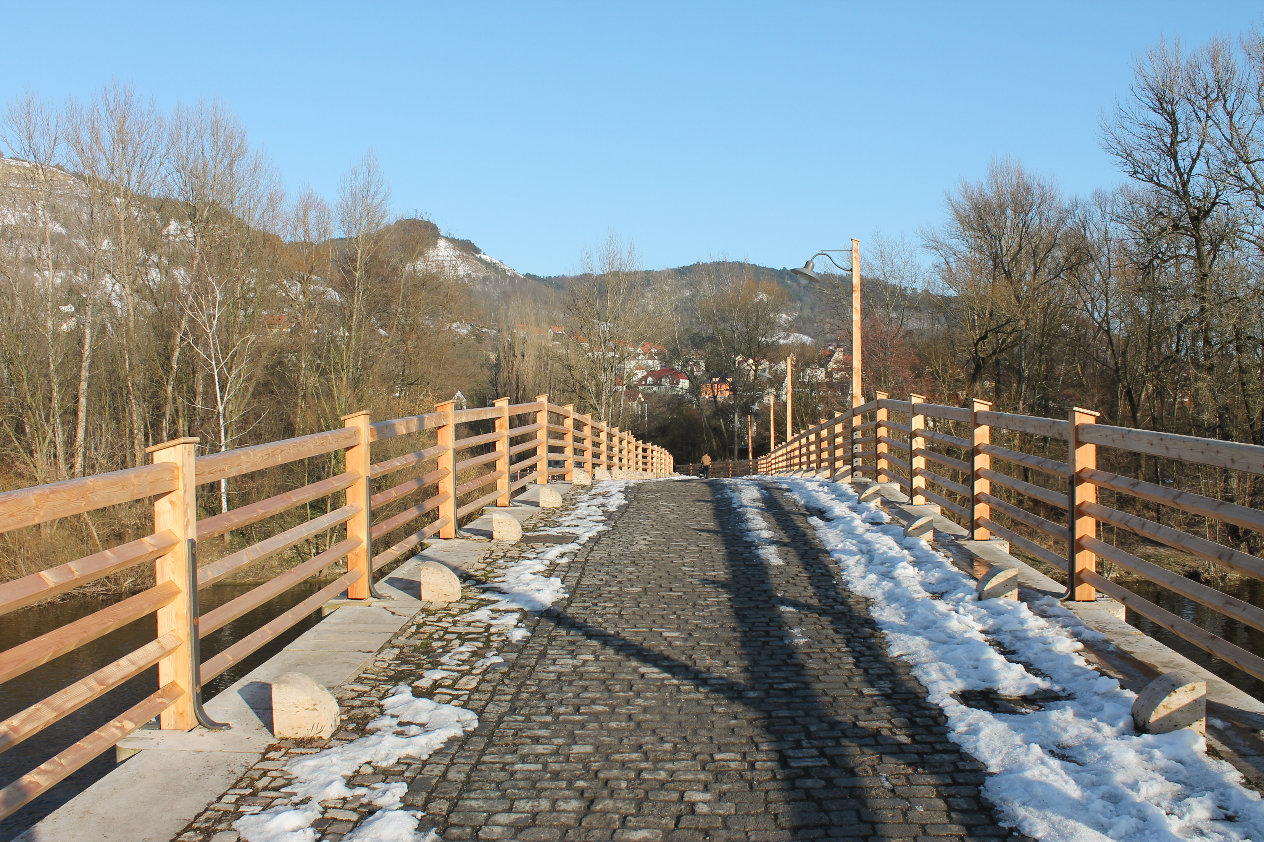 Bridge spanning the Saale in Jena-Burgau after reconstruction with Jena-Lobeda in the background.